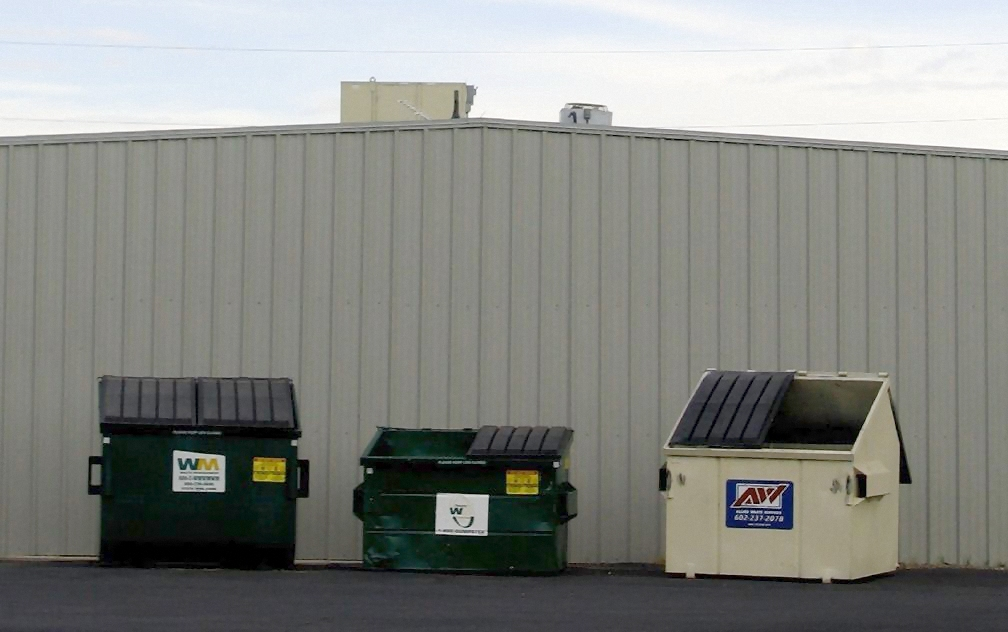 Dumpsters